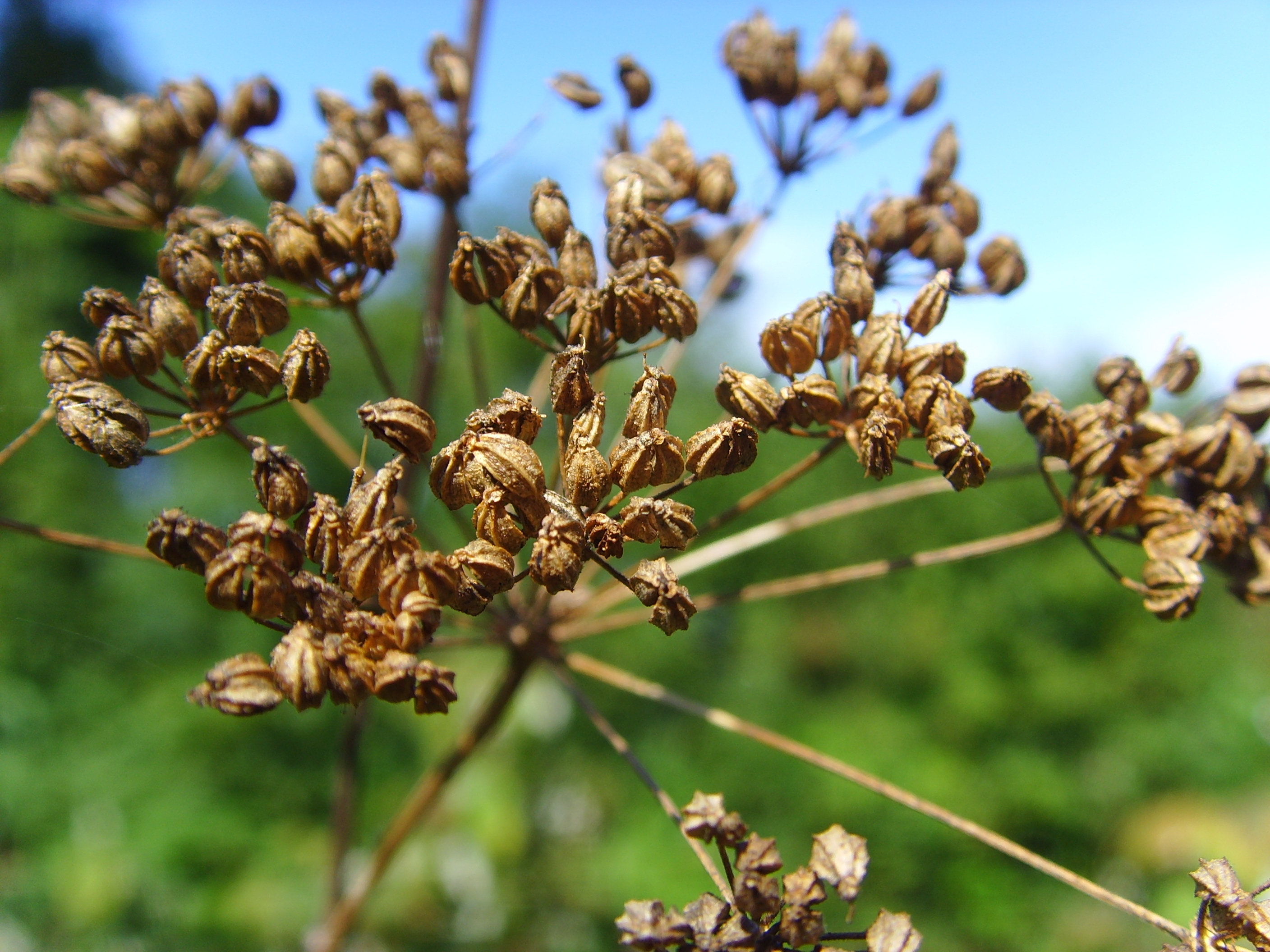 Seeds of Hemlock Conium maculatum, Totnes, Devon, United Kingdom.